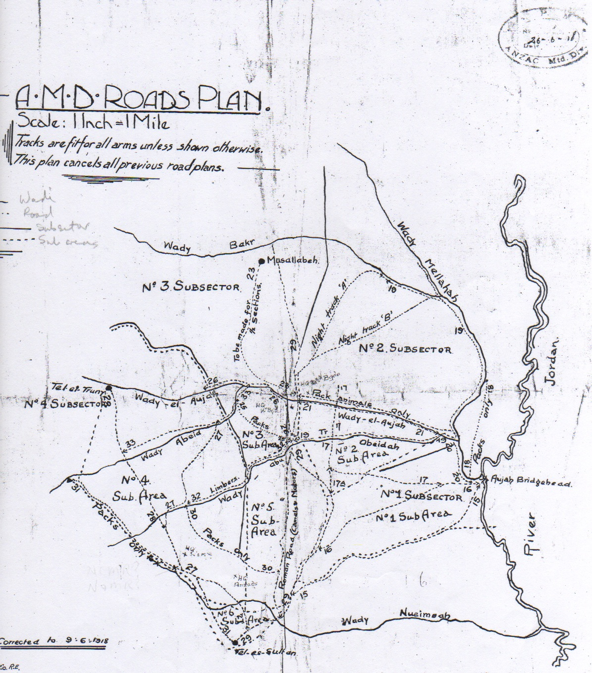 Sketch of the Australian Mounted Division's roads plan for 10 June 1918